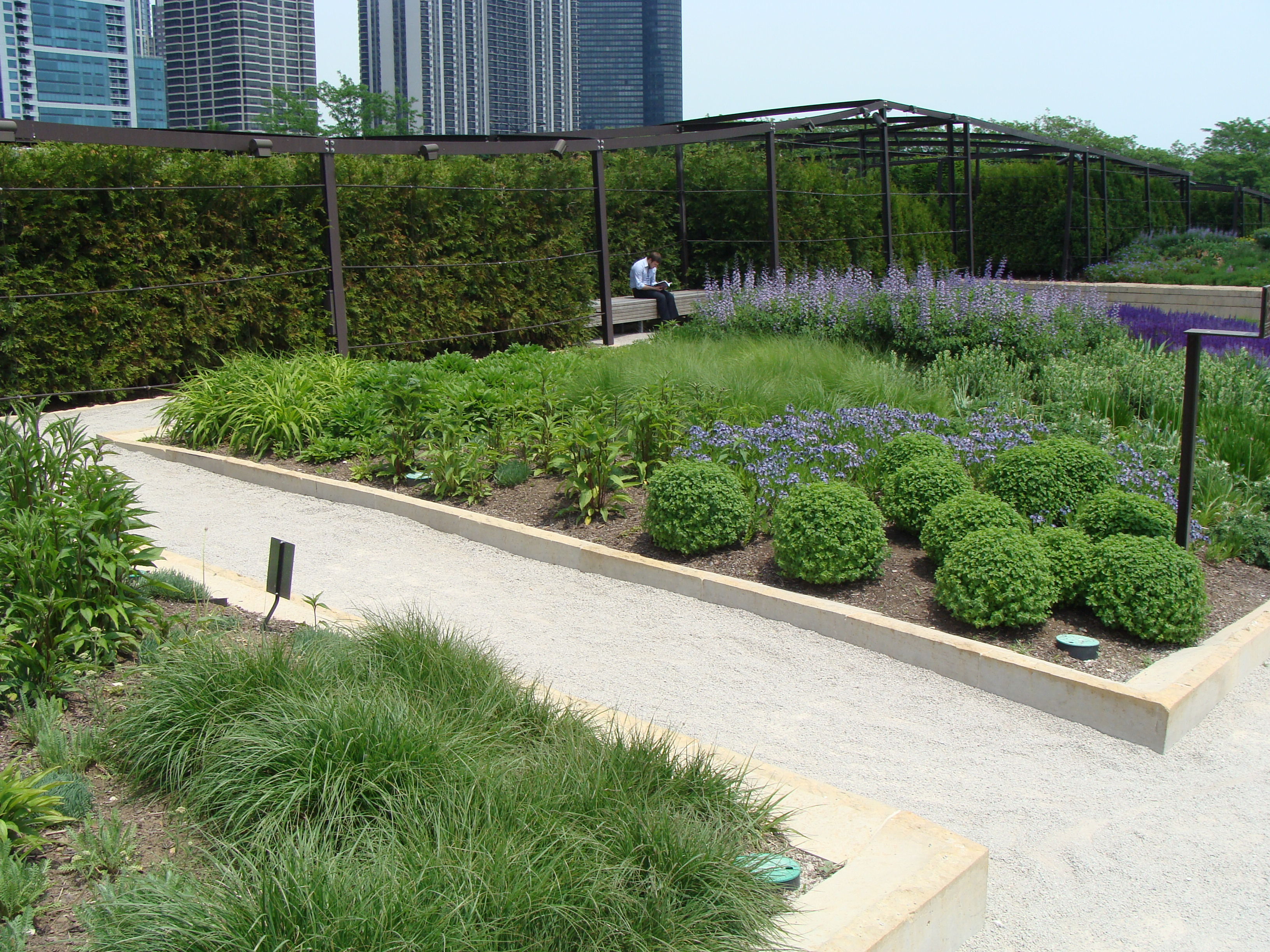 Lurie Garden in Millennium Park